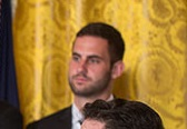 University of Louisville basketball player Luke Hancock at the team's White House visit honoring Louisville's 2013 national championship. Caption from original: President Barack Obama delivers remarks as he welcomes Coach Rick Pitino and the NCAA Champion University of Louisville Cardinals to the East Room of the White House to honor the team and their 2013 NCAA MenÕs Basketball Championship, July 23, 2013. (Official White House Photo by Pete Souza)